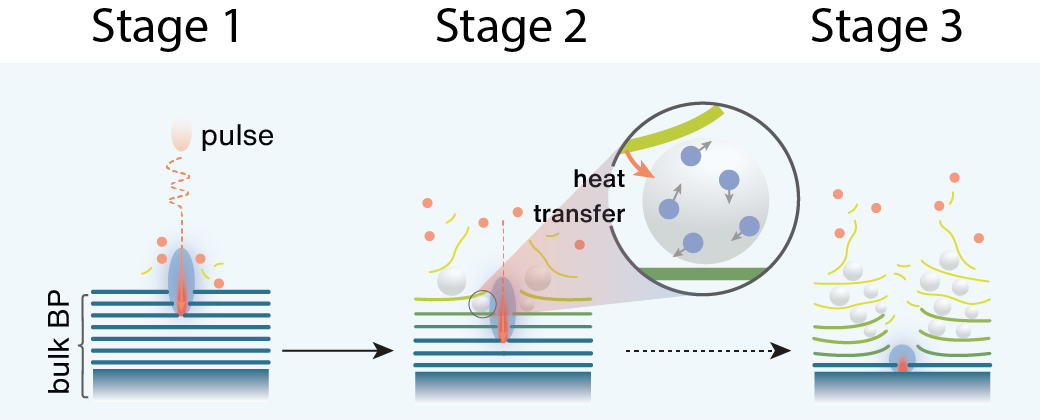 Laser-assisted BP exfoliation in a liquid environment